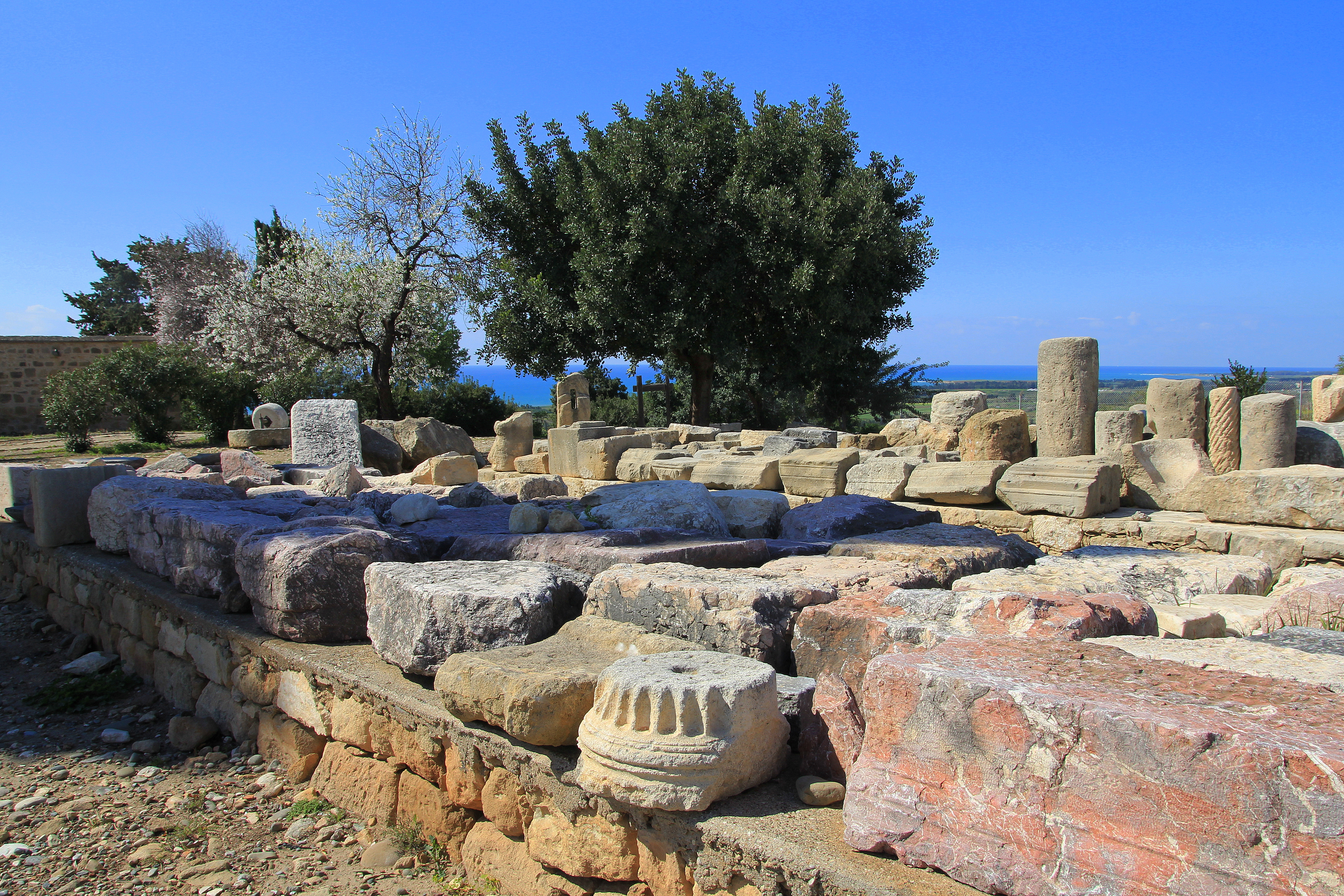 Santuary of Aphrodite at Palaepafos, Cyprus